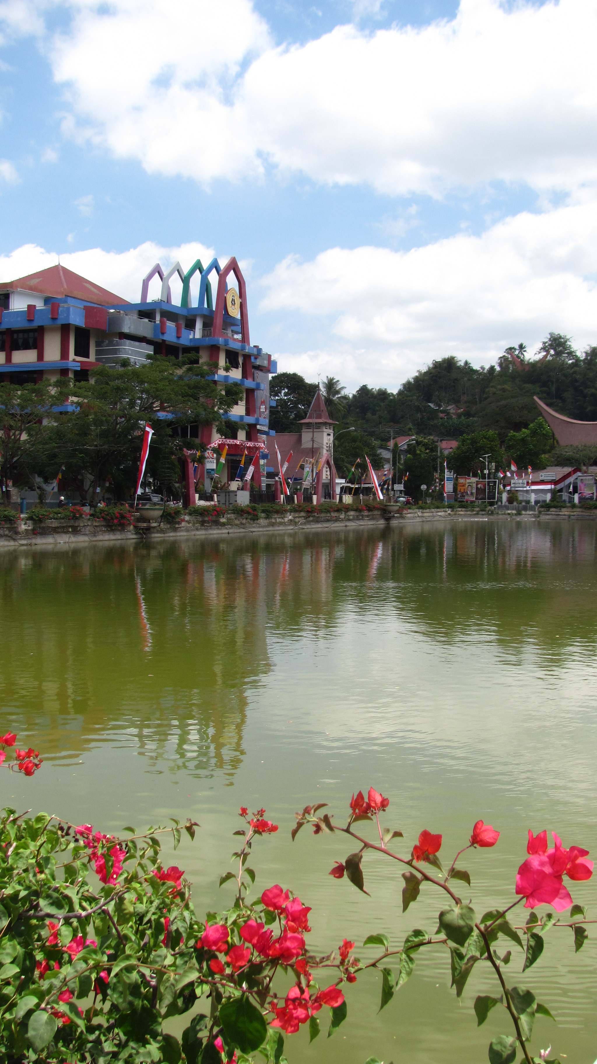 Lake in the centre of Makale, Sulawesi, Indonesia